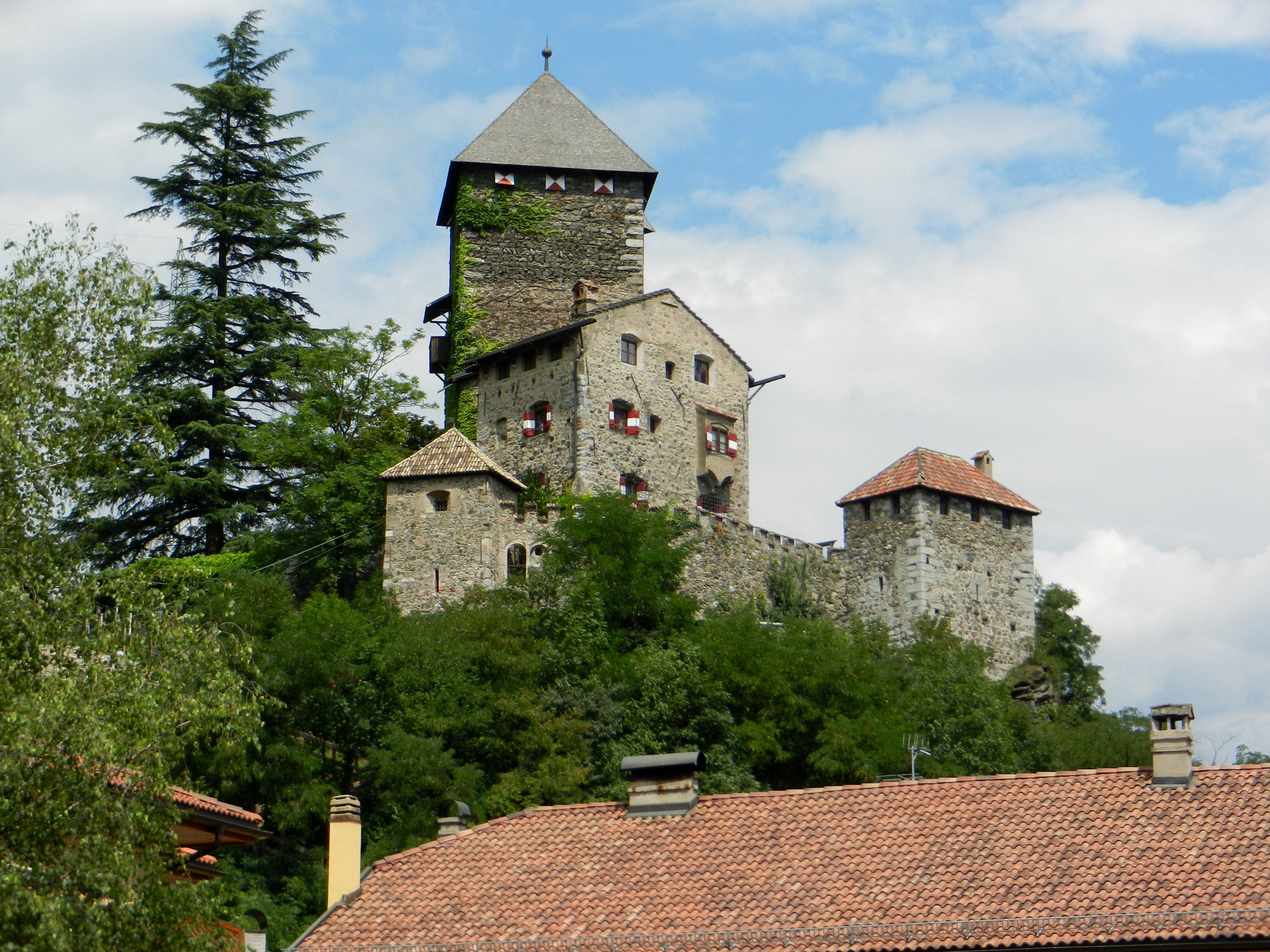 Chiusa - Klausen (province of Bolzano, Italy), Branzoll Castle